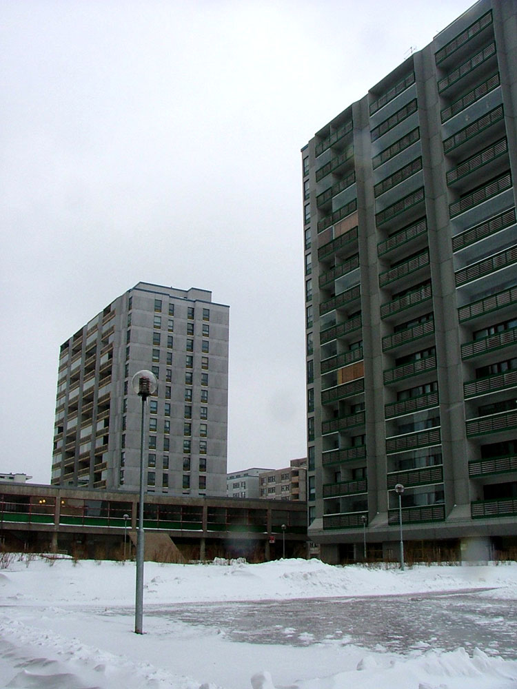 A wintertime view on Merihaka in central Helsinki, Finland